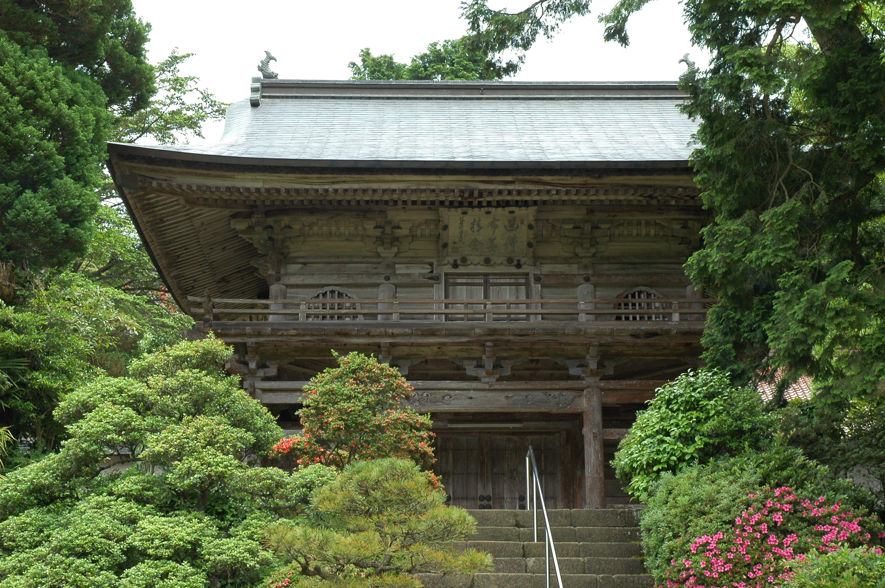 main gate of Joanji Buddhist temple in Hirosecho, Ysugi, Shimane, Japan.This temple is Family temple in Hirose feudal lord Matsudaira family.